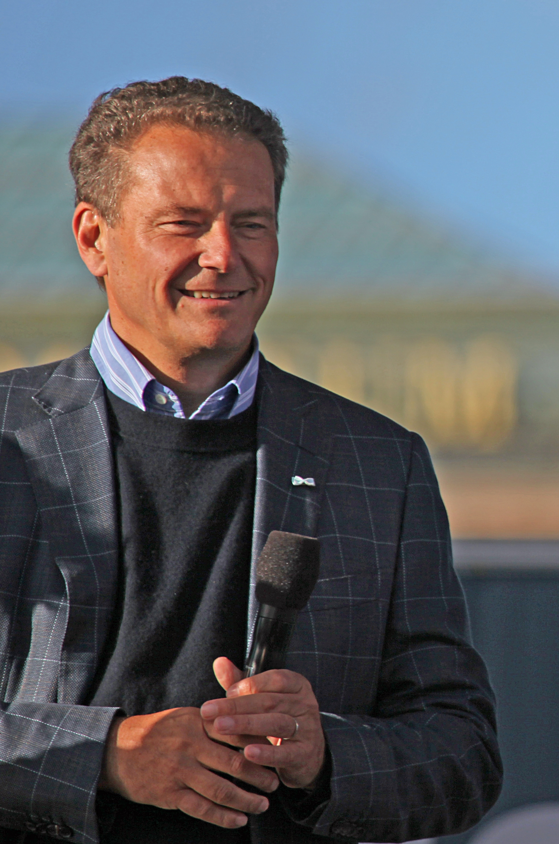 Carl-Henric Svanberg, the CEO of Ericsson. Photo taken during the Volvo Ocean Race 2009.